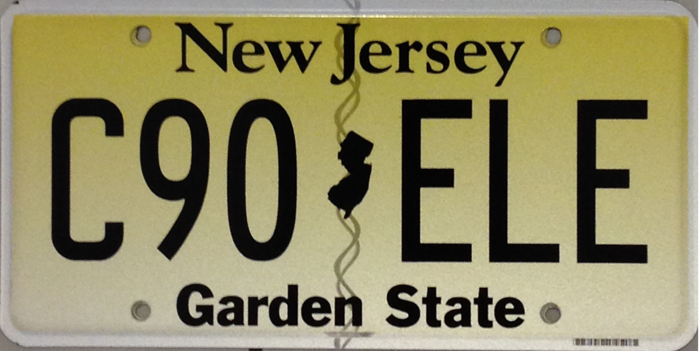 Photo of 2014 New Jersey license plate C90-ELE